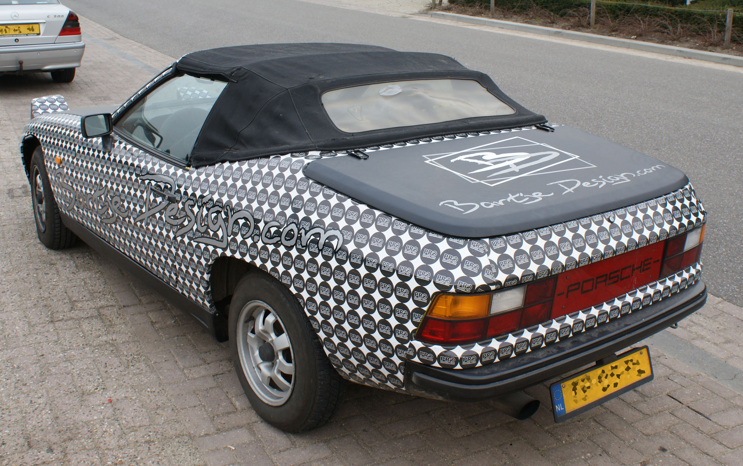 Porsche 924 Bieber convertible.